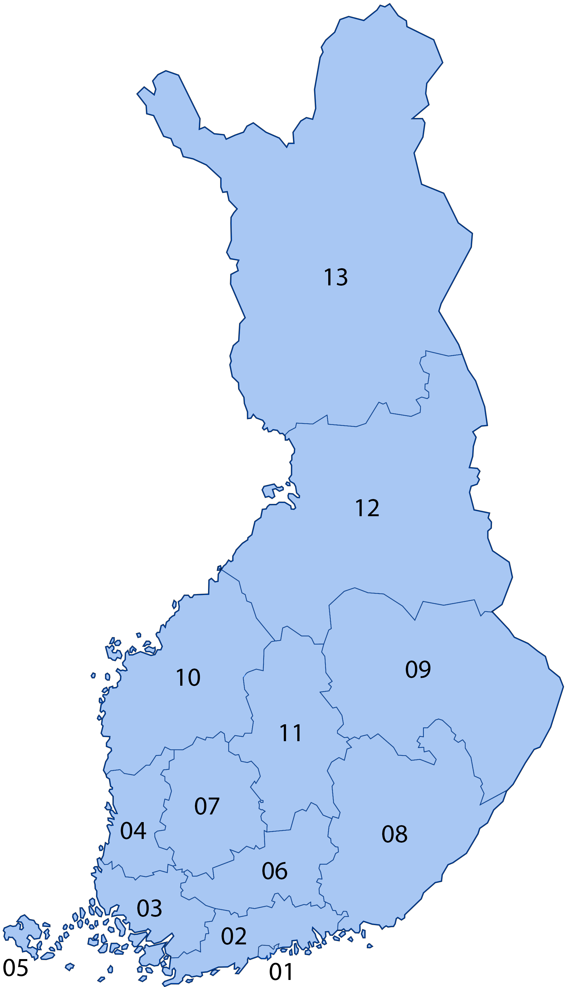 Map showing the electoral districts of Finland since 2013